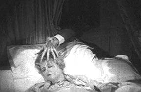 Screenshot from the film The Cat and the Canary (1927) featuring actress Laura La Plante. 1927, Universal Pictures Corp.